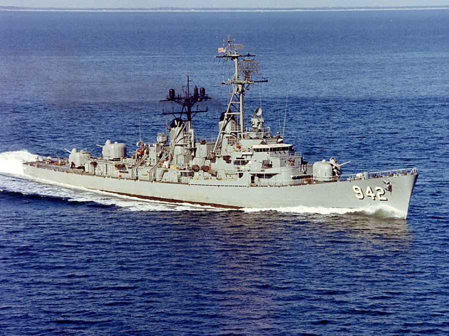 The U.S. Navy destroyer USS Bigelow (DD-942) underway on 30 January 1967.